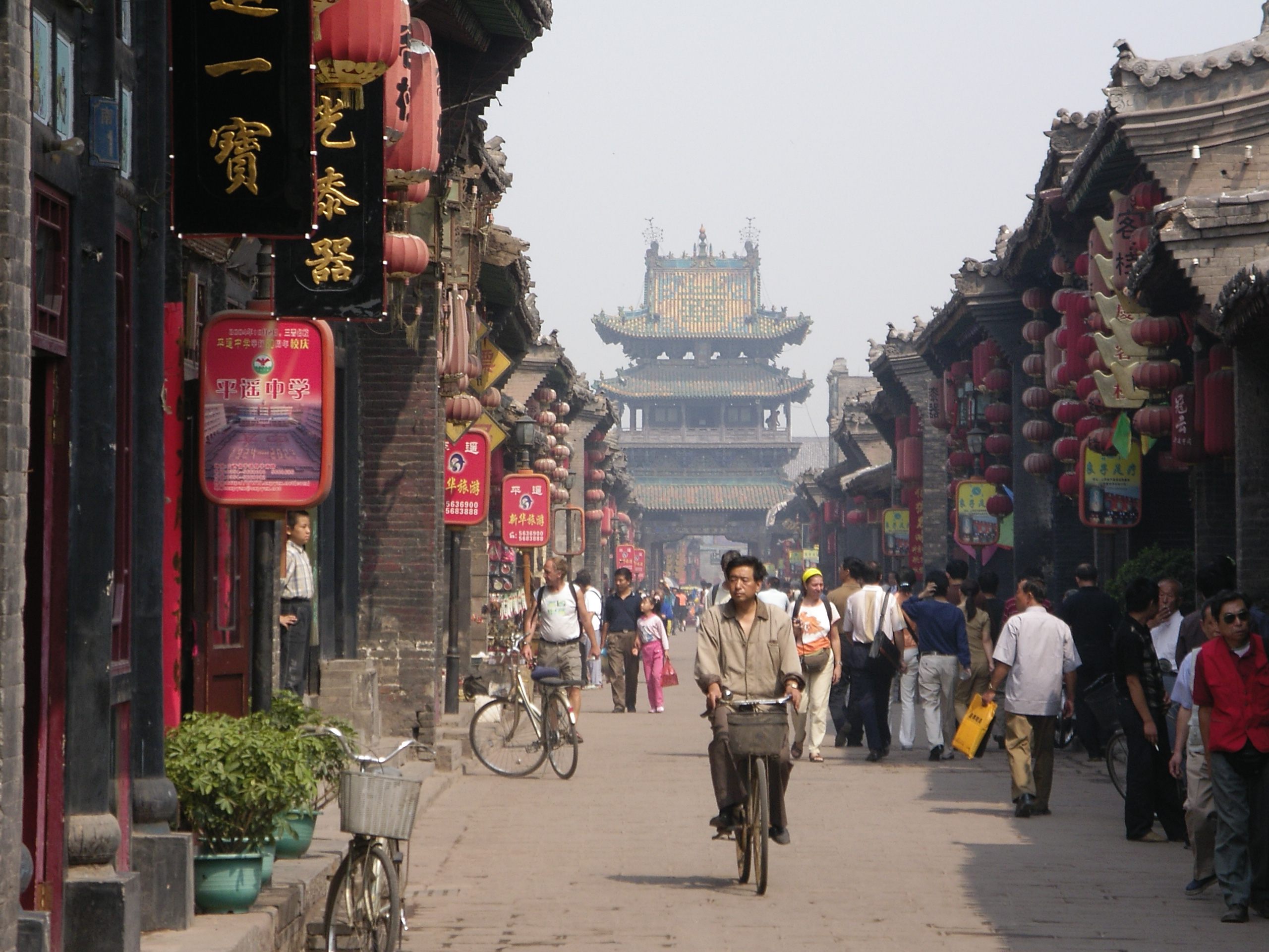 A street in the Old Town of Pingyao